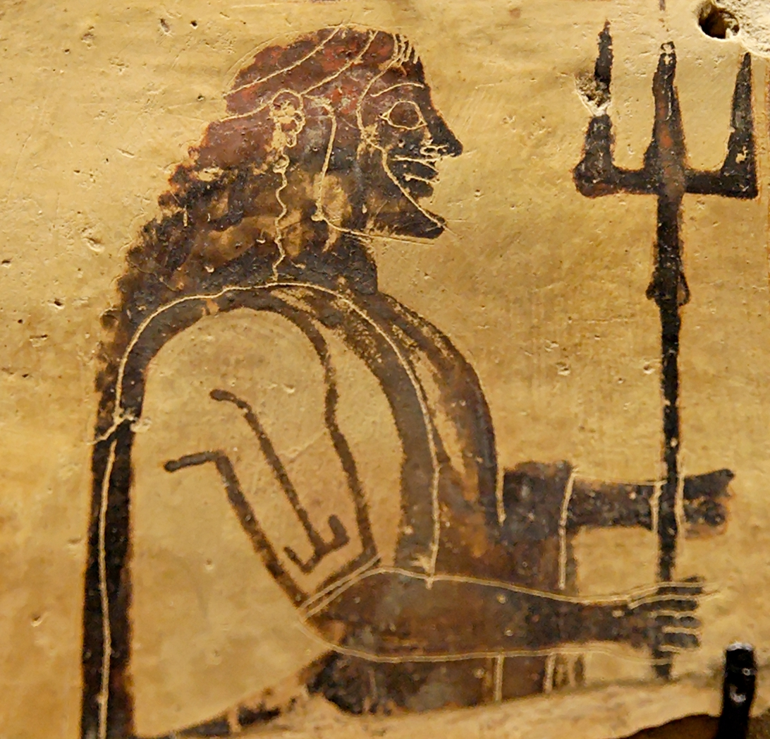 Poseidon holding a trident. Corinthian plaque, 550–525 BC. From Penteskouphia.